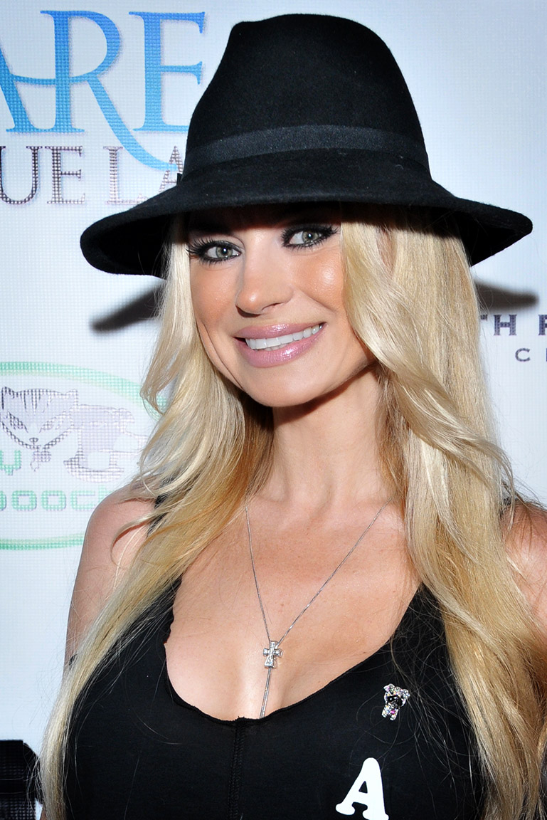 Isabella St. James, Hollywood, California on April 22, 2015 - Photo by Glenn Francis of